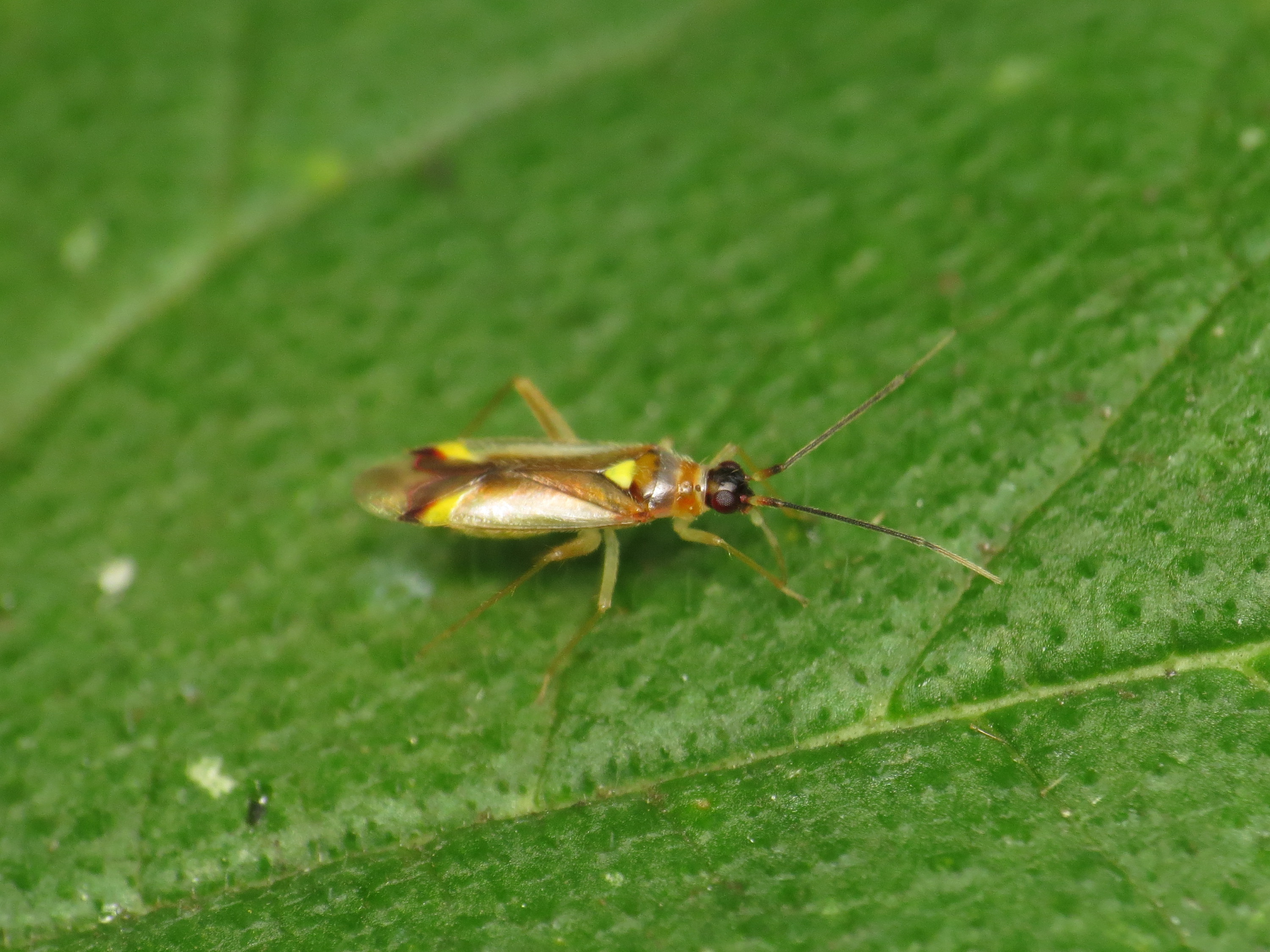 Campyloneura virgula (Herrich-Schaeffer, 1835), Søborg, Denmark, 26 July 2014